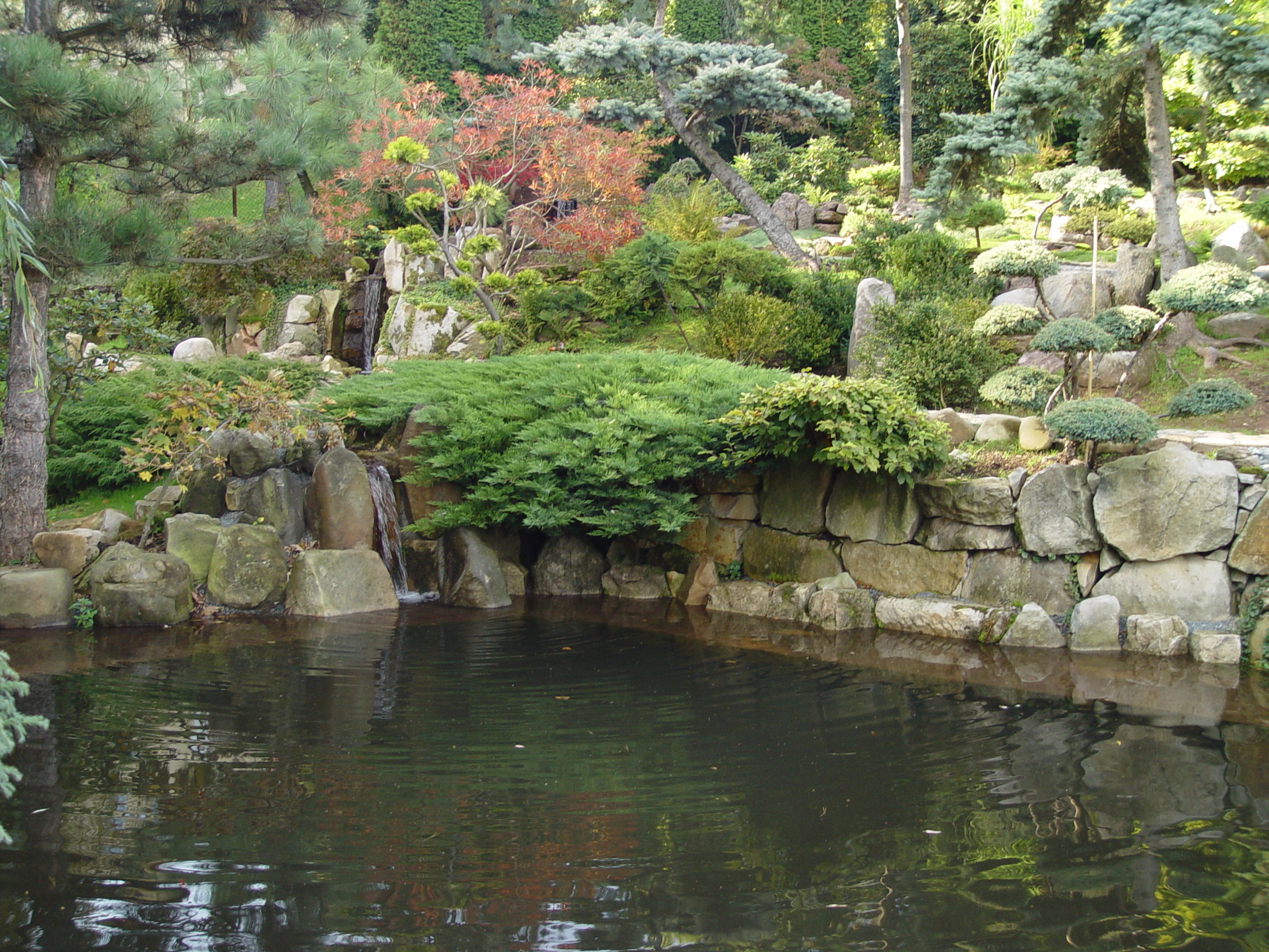 Japanese garden in Jarków, Lower Silesian Voivodship, Poland